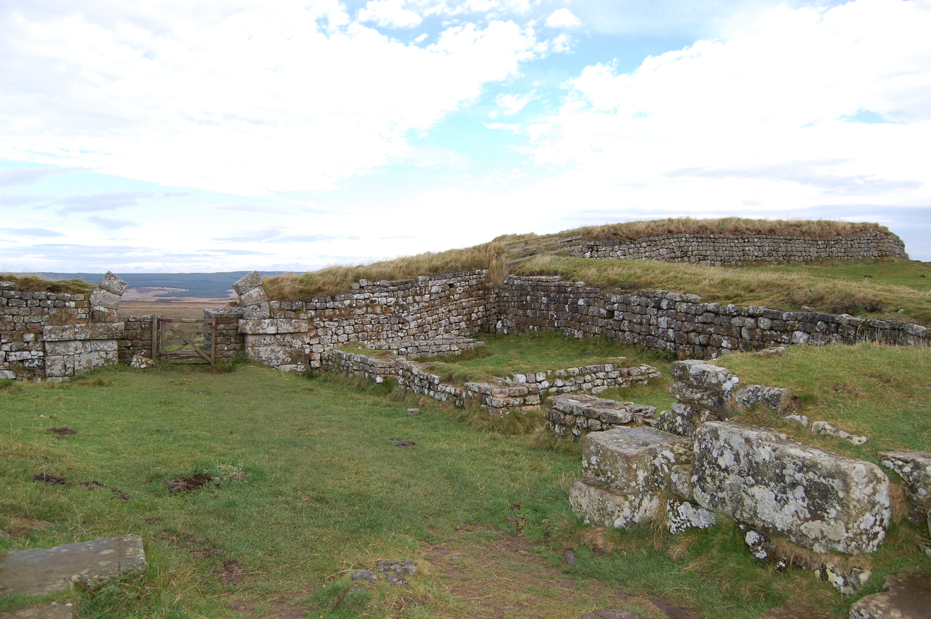 Ruins of a gatehouse in Hadrian's Wall about 1 mile west of the Roman Fort near Housesteads.